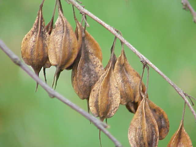 Species: Halesia carolina Family: Styracaceae Image No. 7